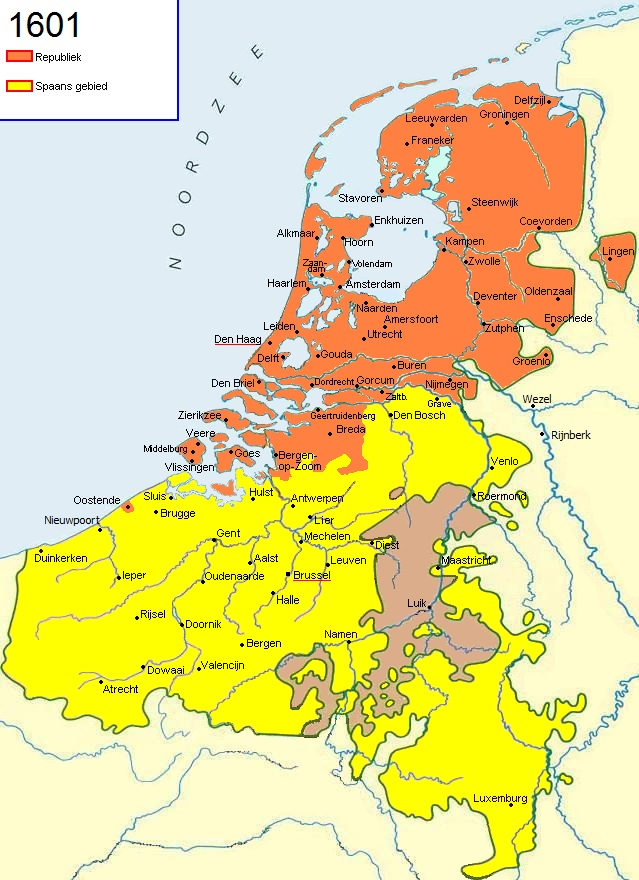 Situation in The Netherlands in 1601, before the sieges of Rheinberg (1601) and Ostend (1601-1604).